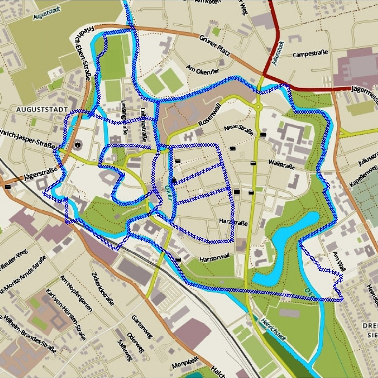 Oker in Wolfenbuettel today and 1741 without bastions.